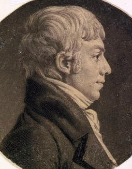 William A. Burwell, US Representative from Virginia